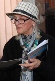 Portrait Rade Stefanovic